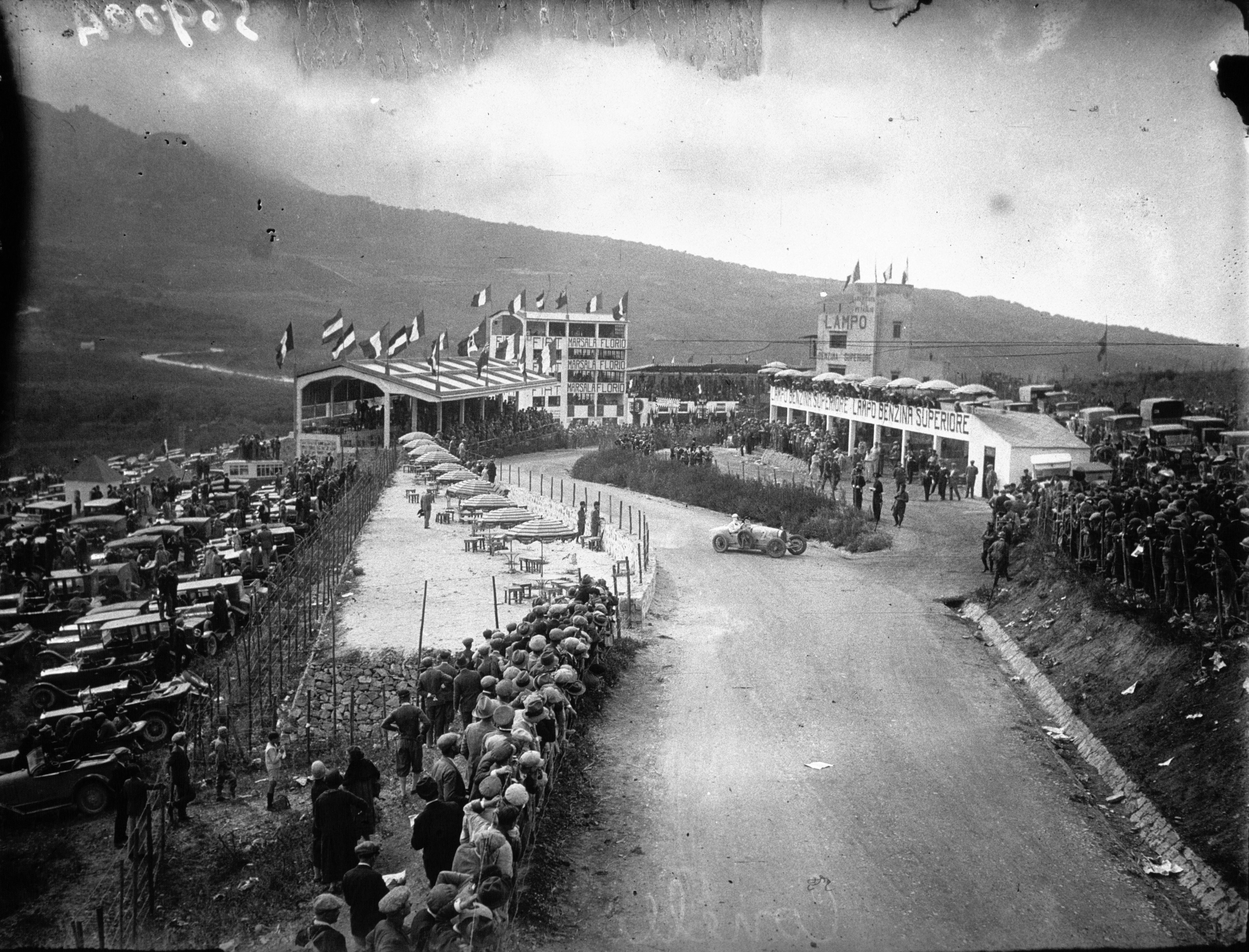 Caberto Conelli in his Bugatti at the 1928 Targa Florio.